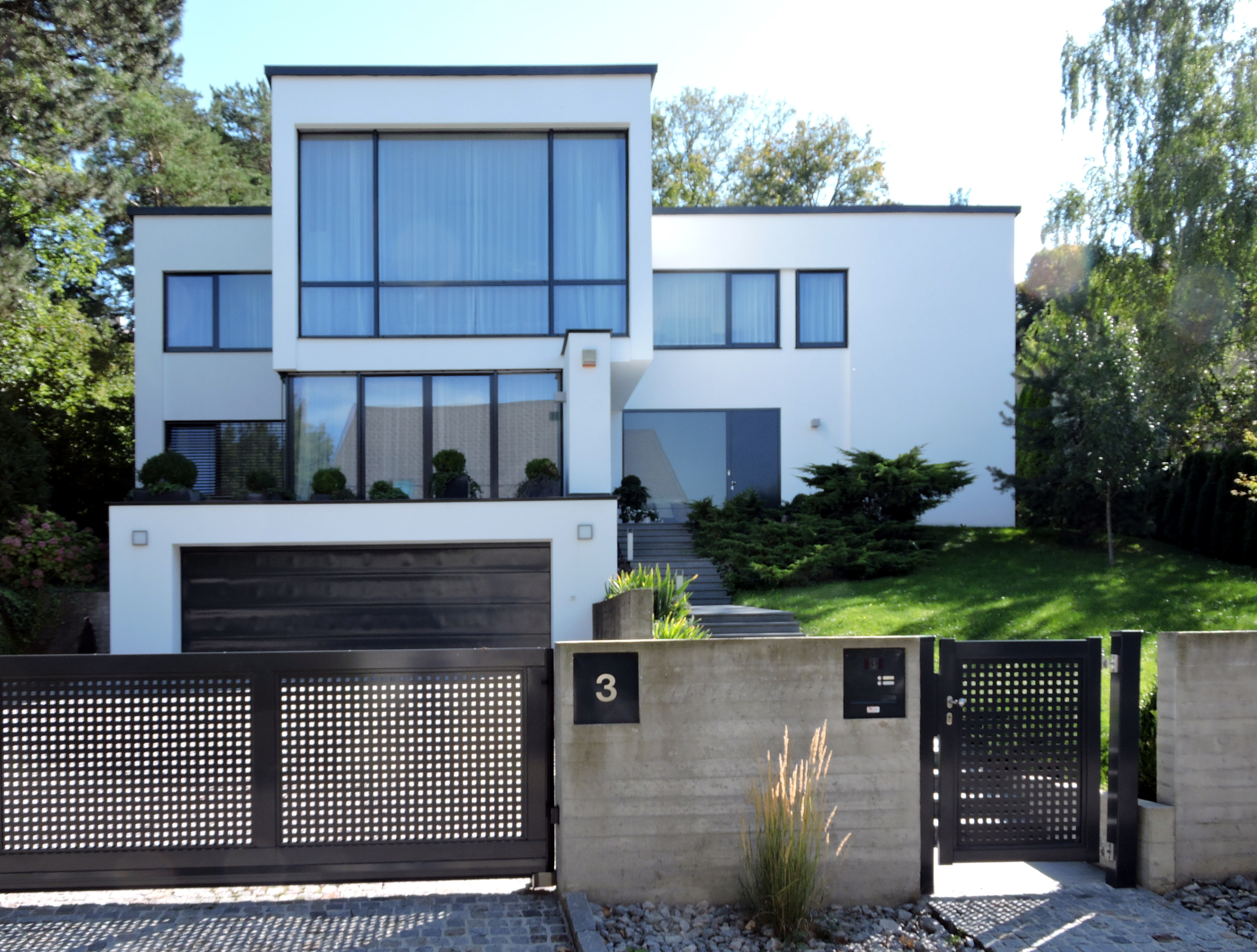 Villa in Klosterneuburg-Weidling, conceptual designed by Karl Mang